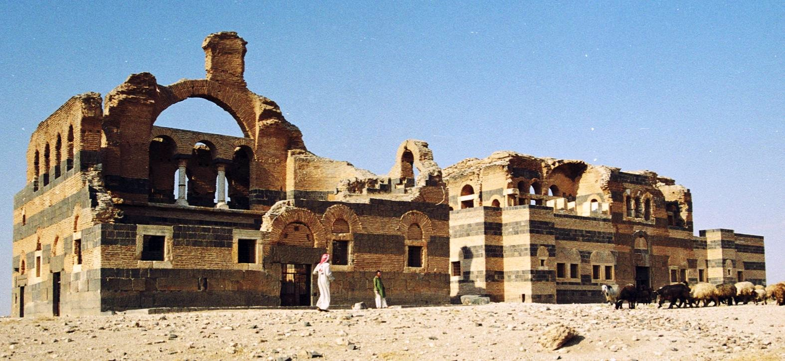 vista del castillo